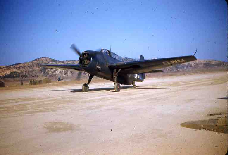 A Grumman Avenger converted to a repair plane at airfield "K-50", Sokcho (Korea), on 24 December 1951. The tail code "WM" indicates that this plane was assigned to Headquarters Squadron Marine Air Group 33 (HEDRON 33).